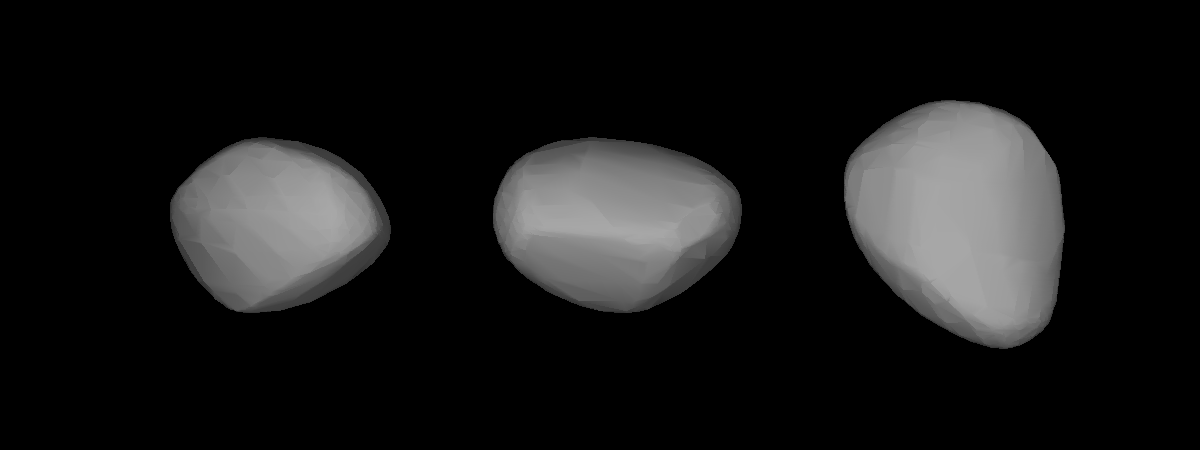 A three-dimensional model of 349 Dembowska that was computed using light curve inversion techniques.